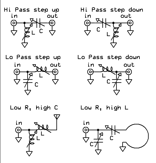 Showing schematic diagrams for six of the eight possible L network configurations, as used in impedance matching. Used in antenna tuner.